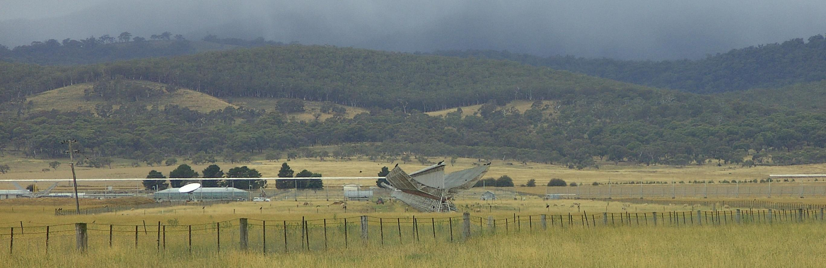 Molonglo Observatory Synthesis Telescope, looking at the western end of the East-West arm.